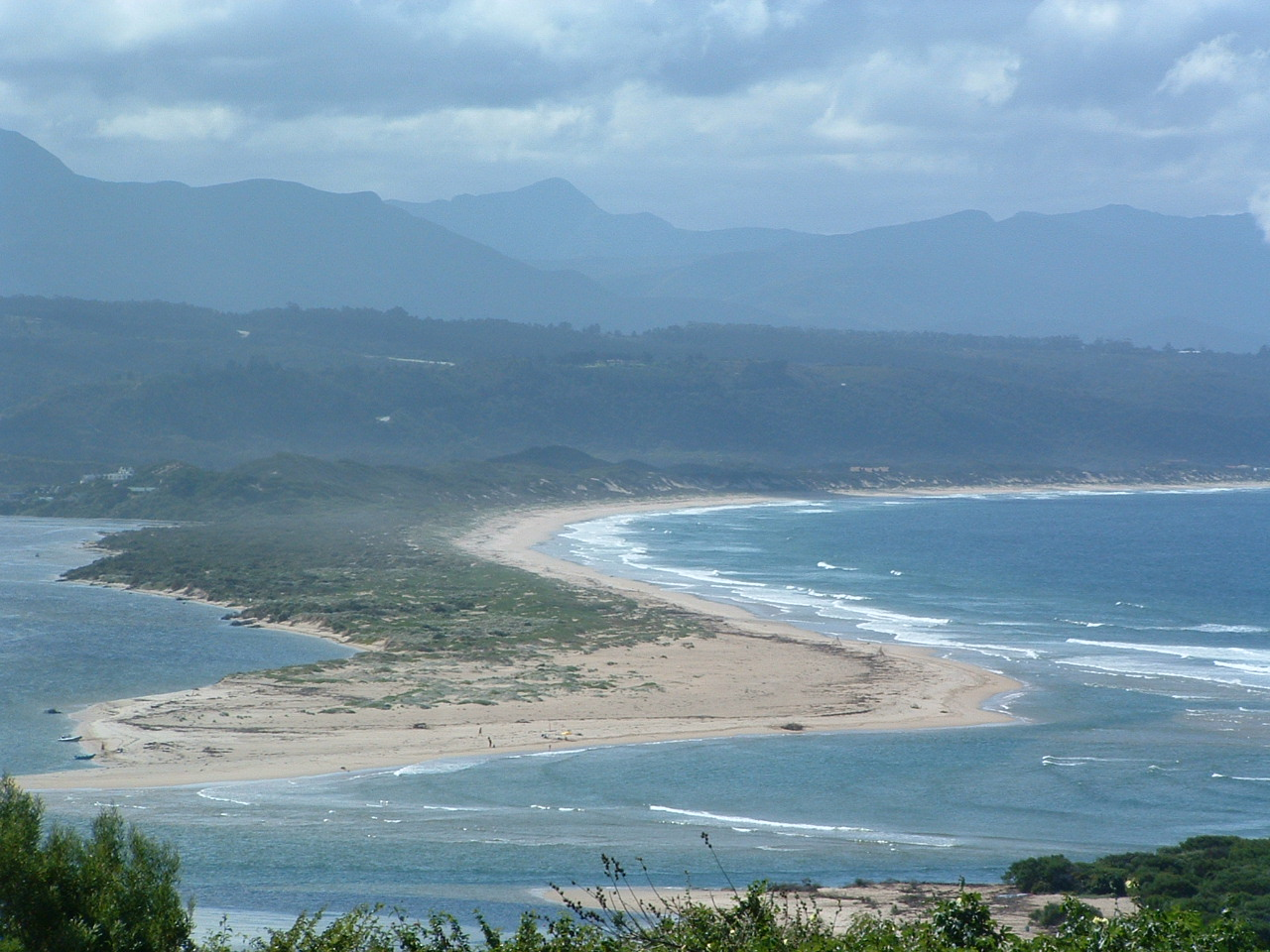 Plettenberg Bay from the West. South Africa.